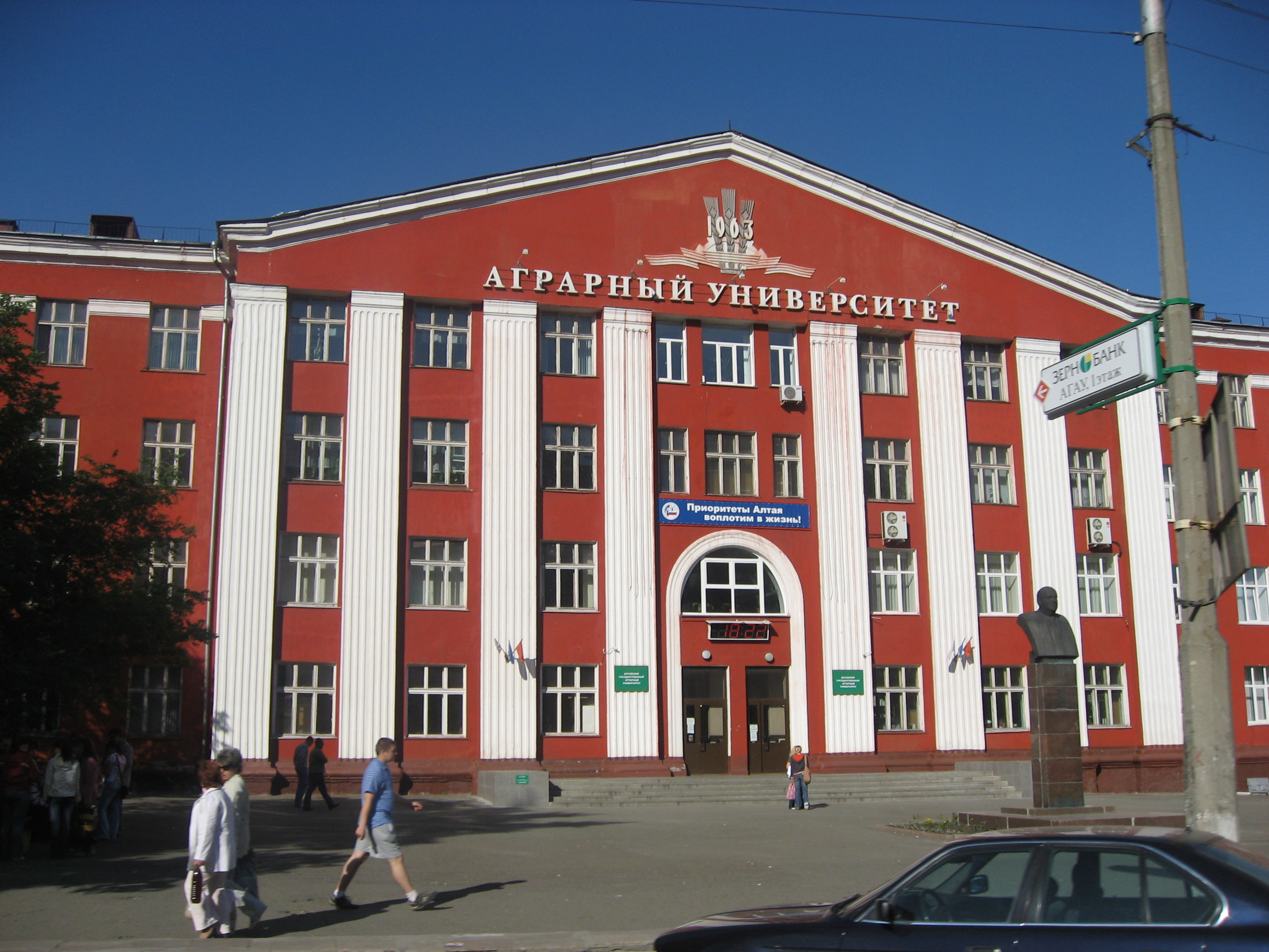 Altay State Agrarian University, Barnaul